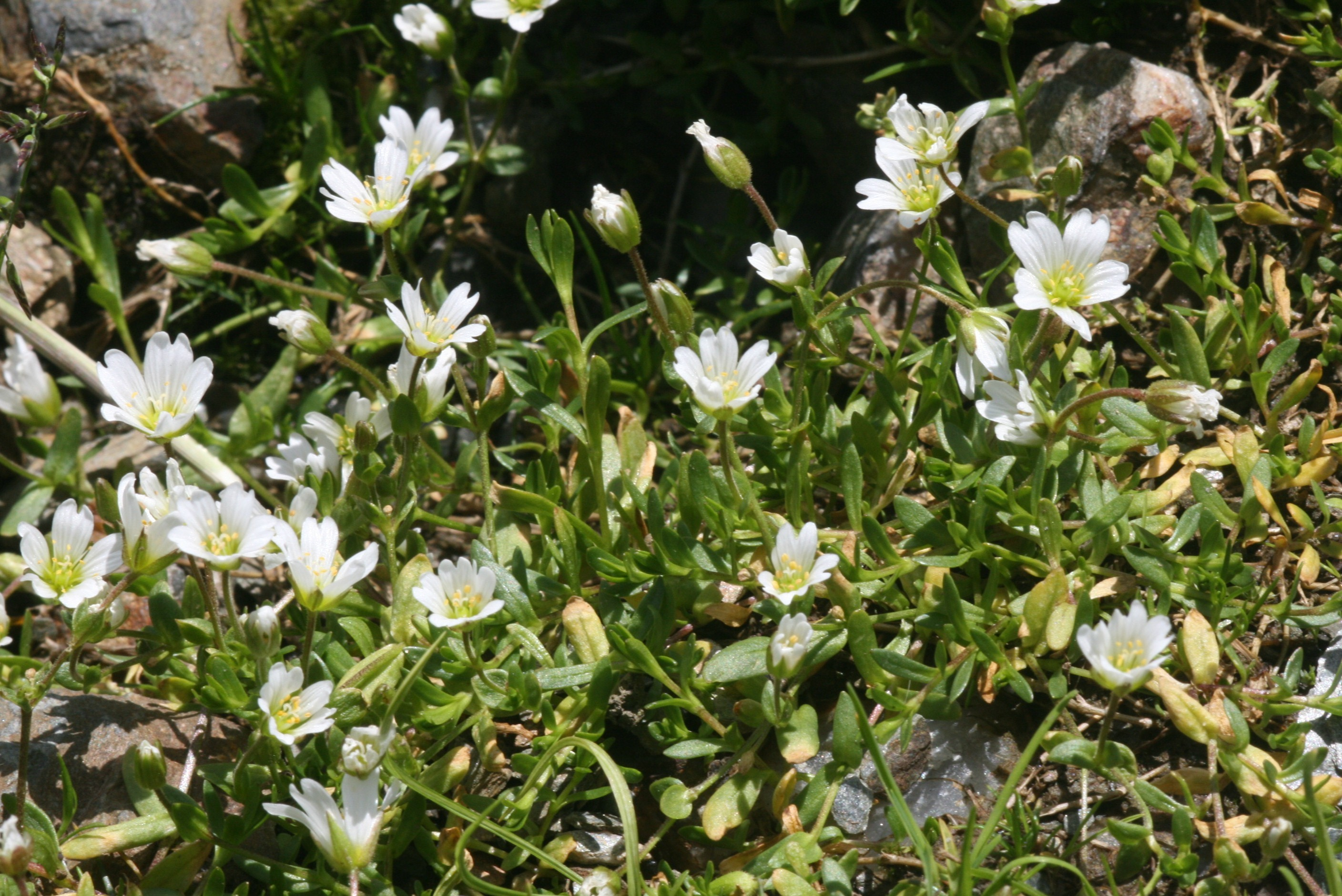 Cerastium cerastoides